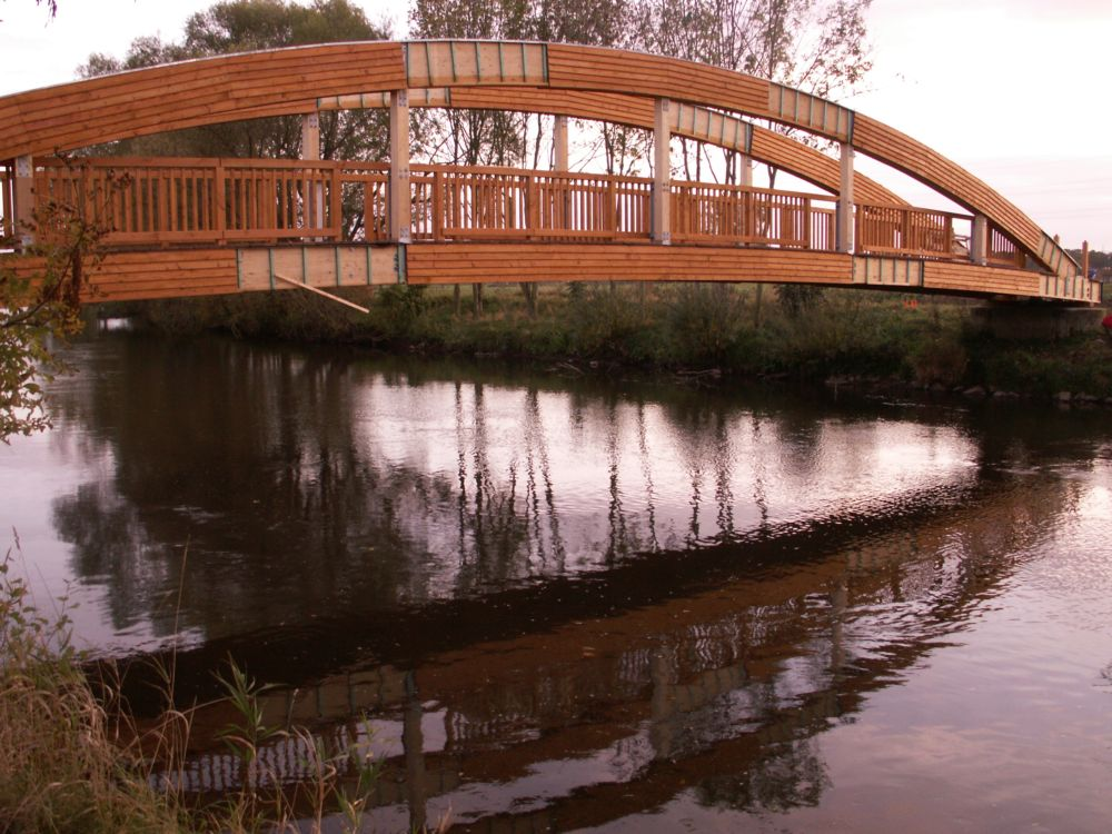 neue rurbrücke photographed by me